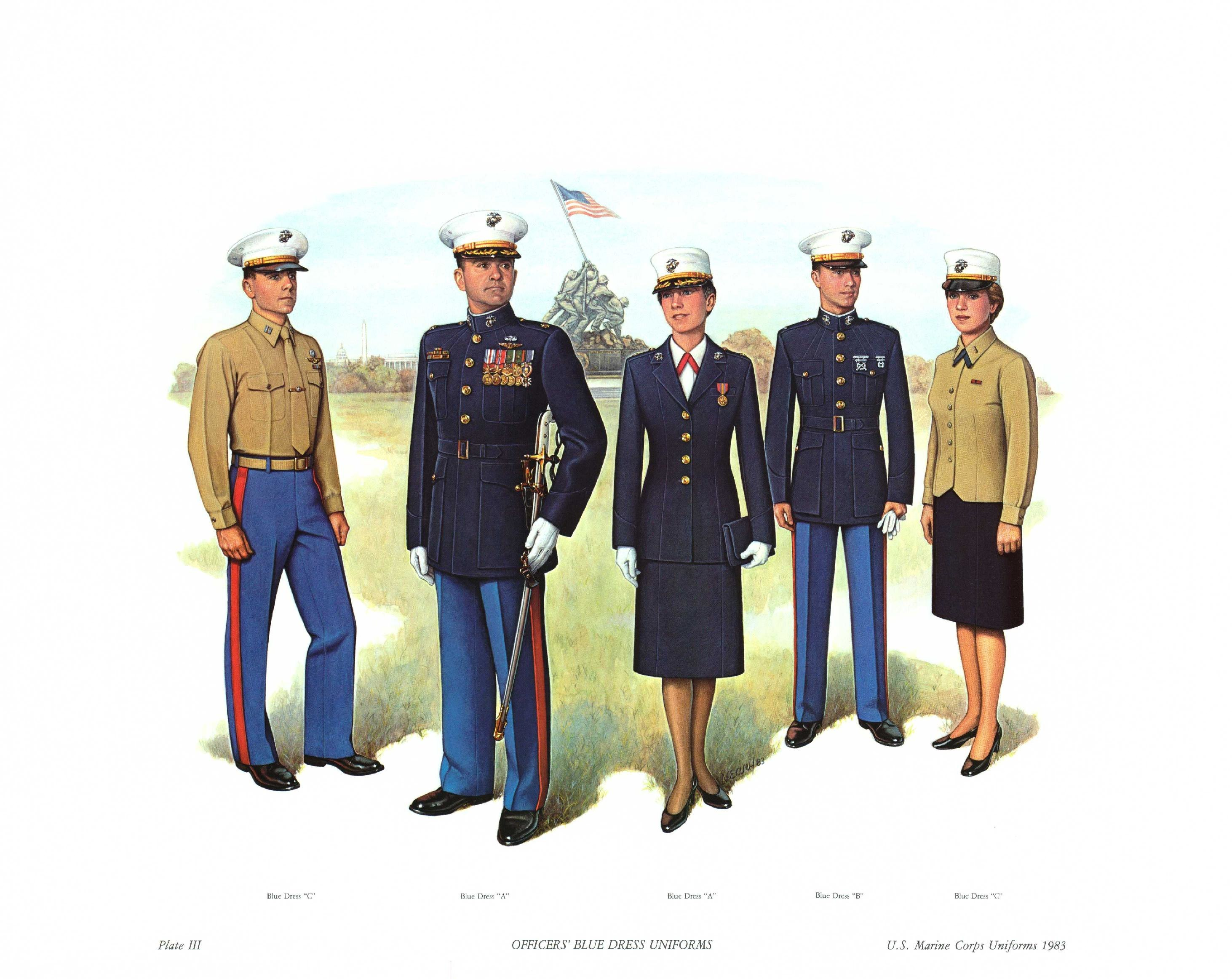 From left to right: Blue Dress "C", Blue Dress "A" (Male), Blue Dress "A" (female), Blue Dress "B", Blue Dress "C" Marine Officer Dress Uniform.